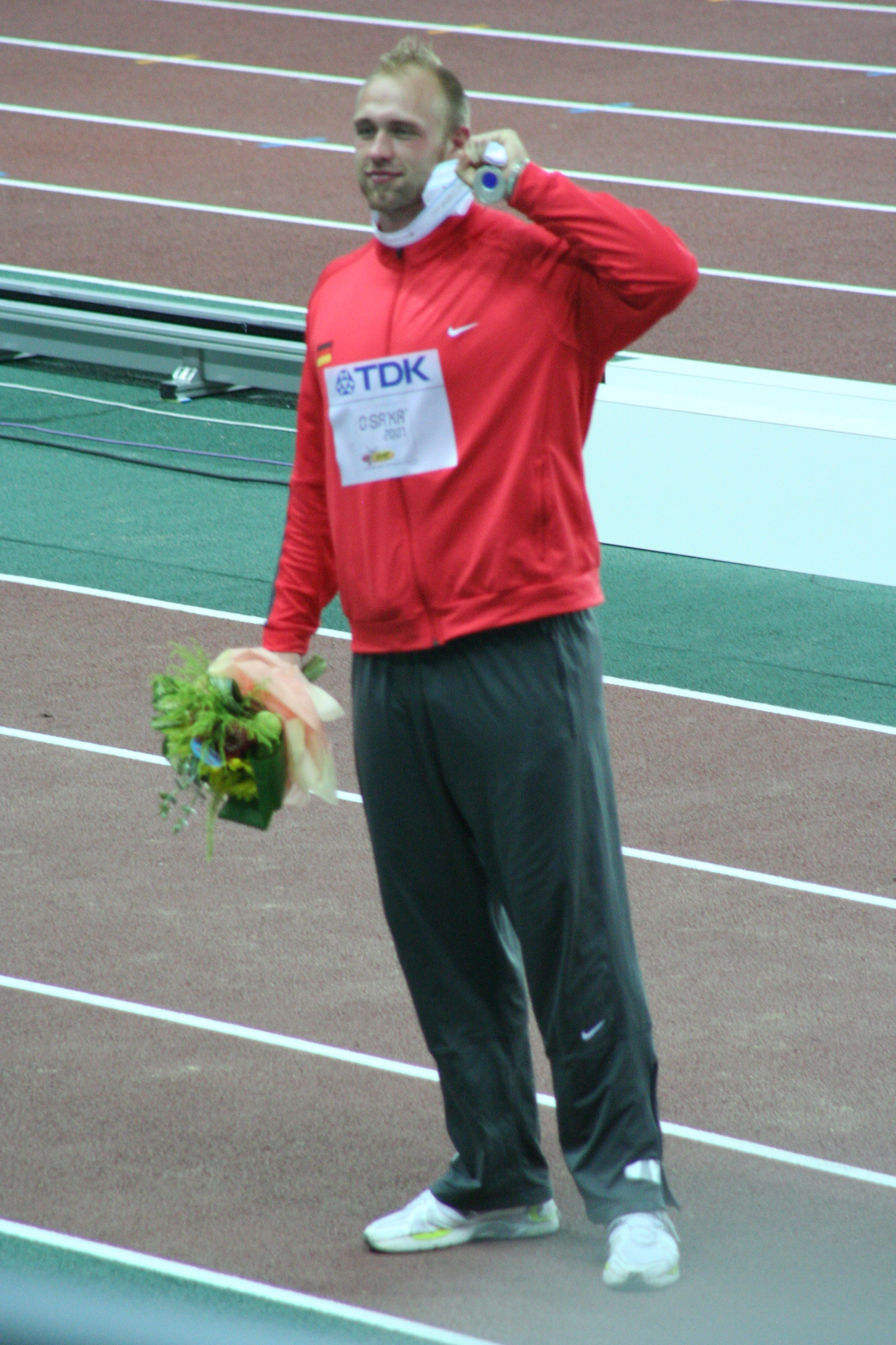 World Athletics Championships 2007 in Osaka - German athlete Robert Harting showing his medal after winning silver in the discus throwing competition